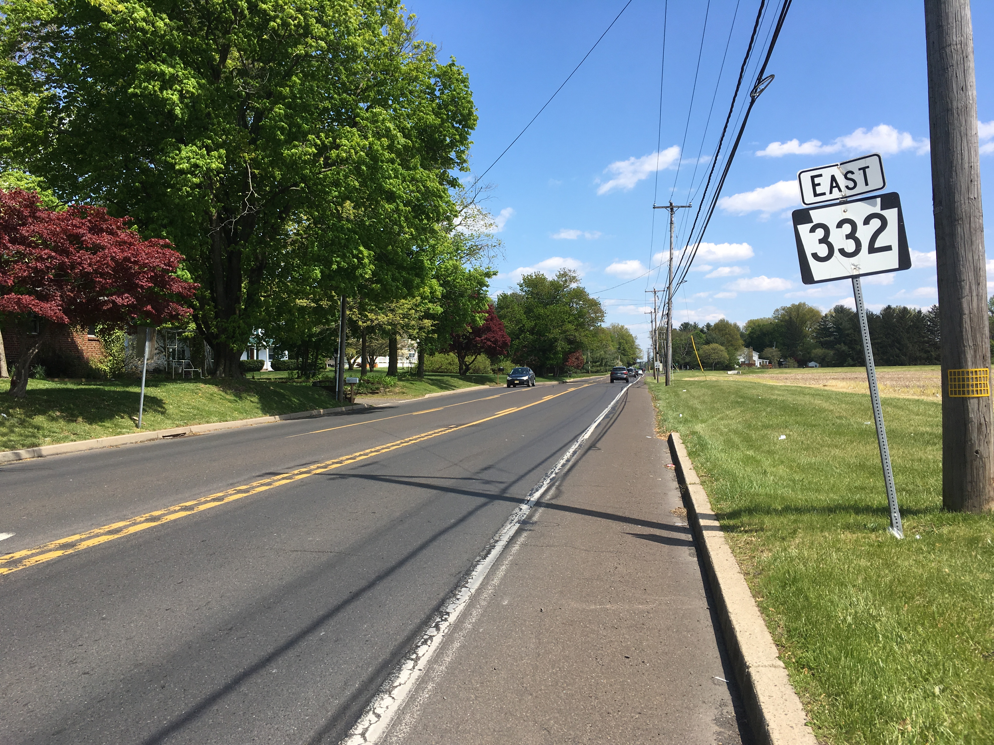 Eastbound Pennsylvania Route 332 (Almshouse Road) past the intersection with Hatboro Road in Northampton Township, Pennsylvania